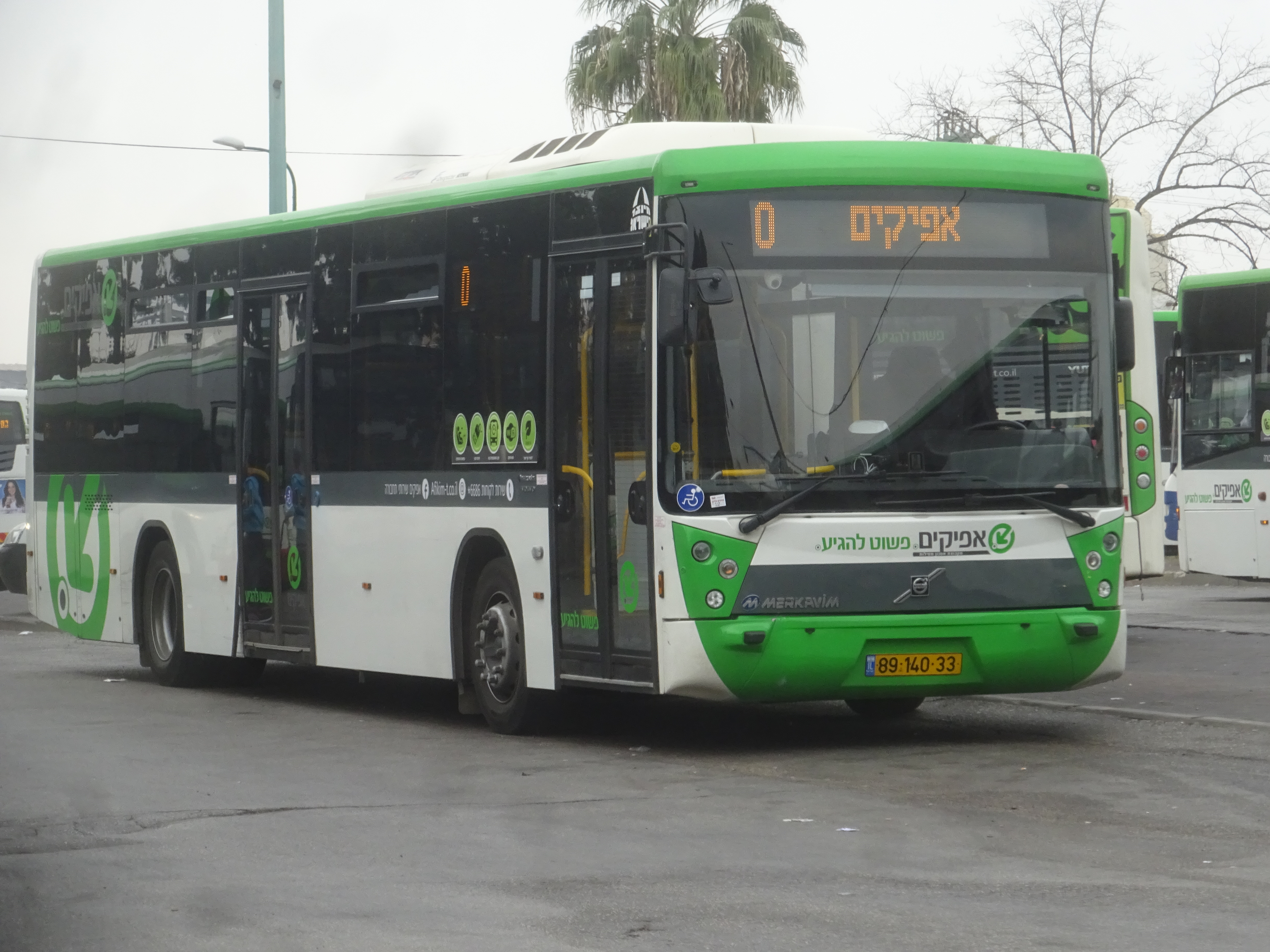 A Volvo B7RLE Afikim bus at the Petah Tikva CBS